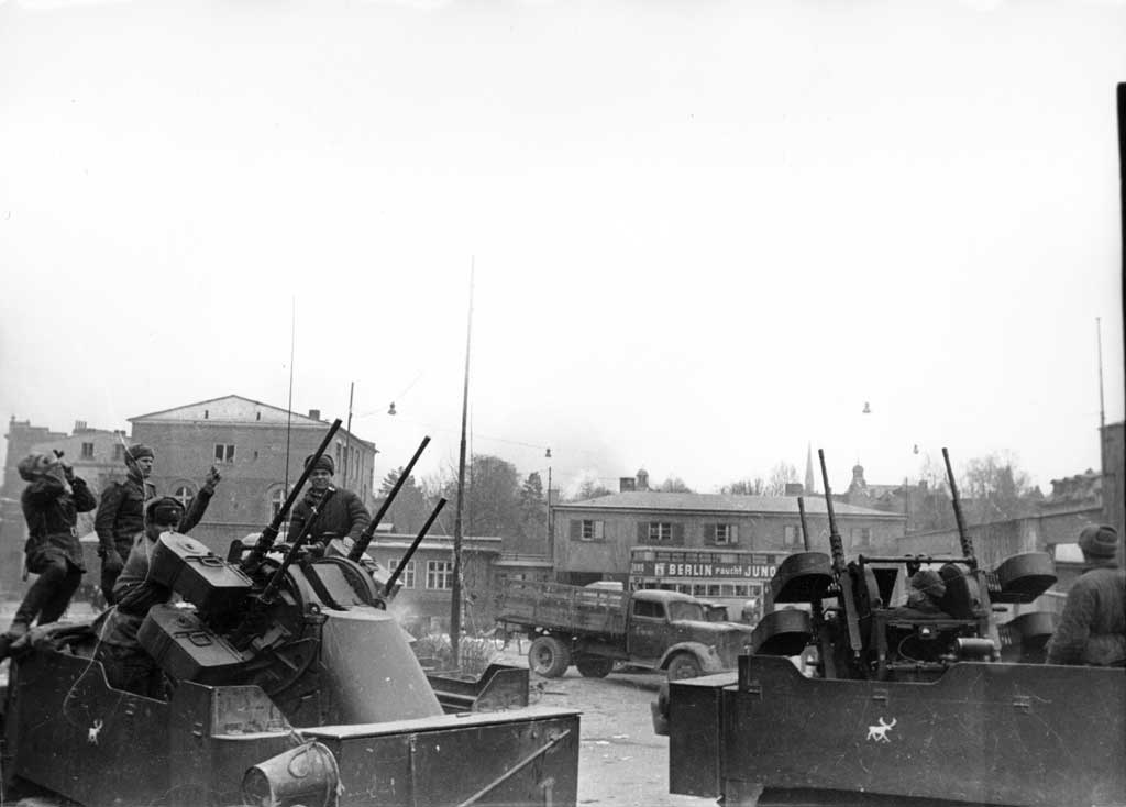 Soviet M-17 vehicles in the streets of Danzig, March 1945.